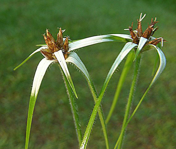 Known as Beaked Sedge in English and Yerba de Estrella in Spanish. The cilia (hairs) of this subspecies are clearly visible.